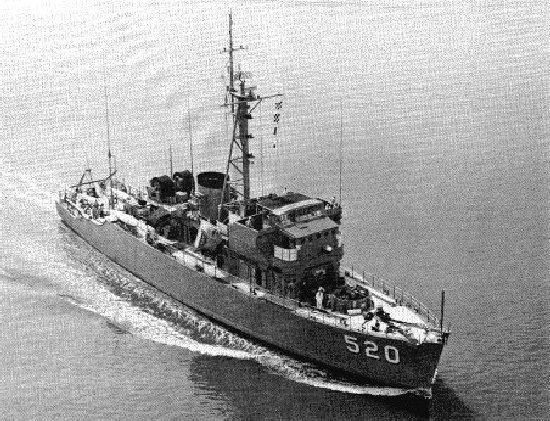 The U.S. Navy ocean minesweeper USS Alacrity (MSO-520) off the Charleston Naval Shipyard, 17 April 1959.